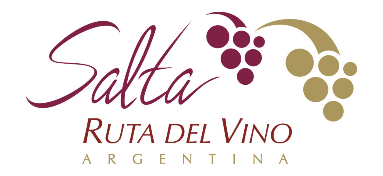 Logo of "Ruta del Vino", a slogan to promote the wine industry in Salta Province, Argentina, released by the Ministery of Culture and Tourism of that province.